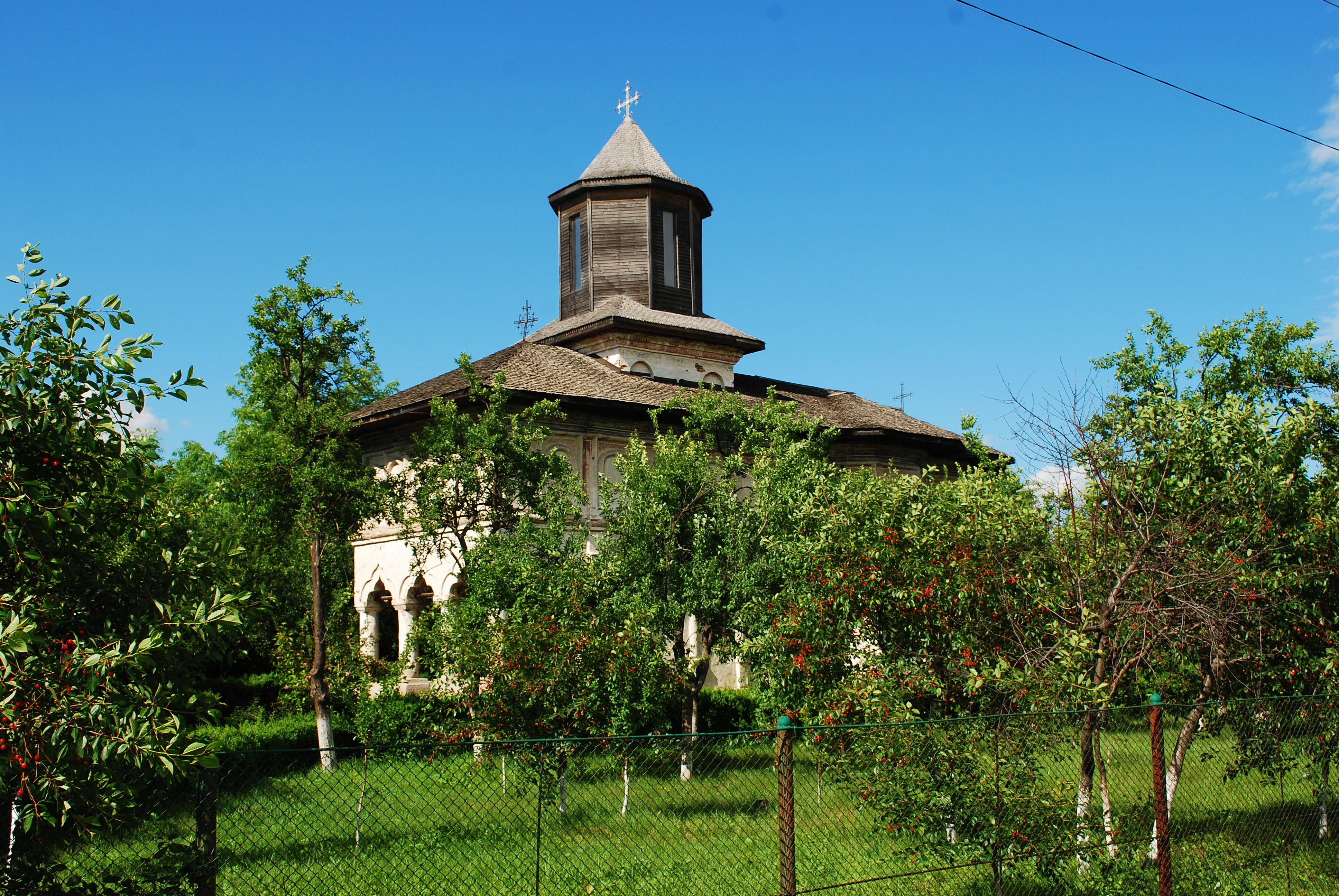 St. Nicholas' church in Râfov, Prahova County, RomaniaRomână: Biserica Sf. Nicolae din Râfov, județul Prahova, România